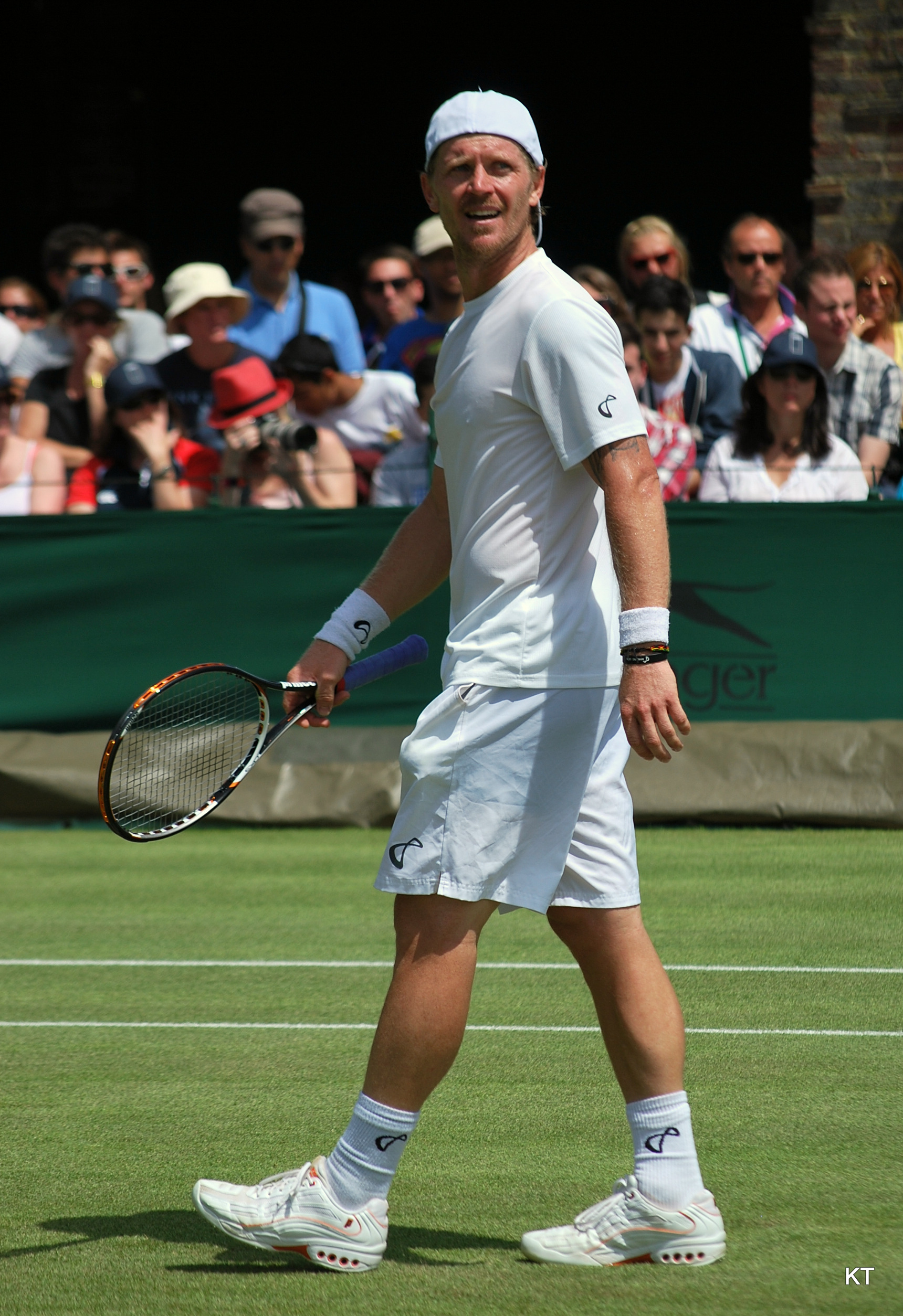 Alex Bogomolov Jr has a dispute with the umpire during his first round match with Alexandr Dolgopolov on Day 2 of Wimbledon 2012. Dolgopolov won 6-3, 6-4, 7-5.